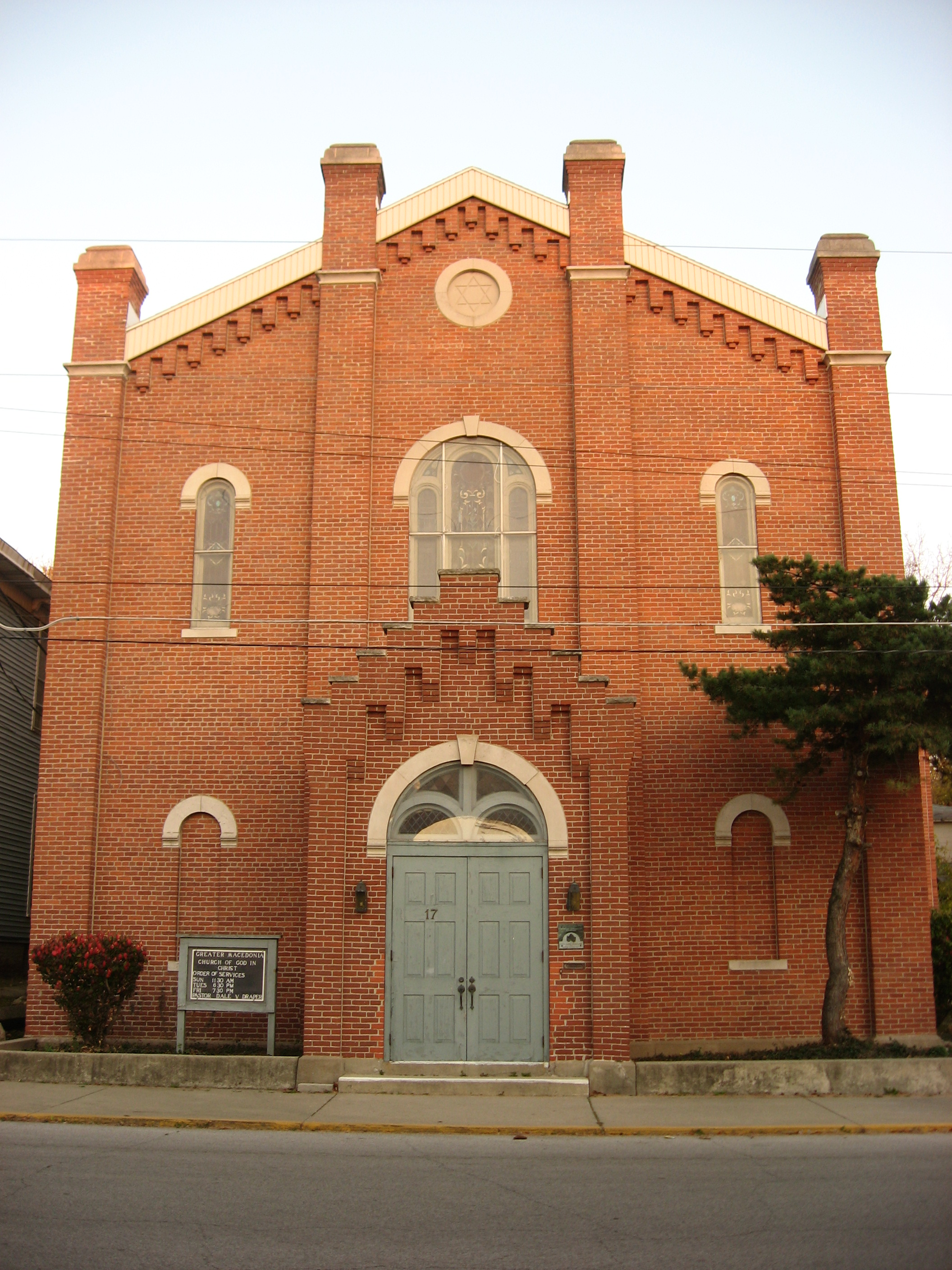 Front of the former Temple Israel, located at 17 S. Seventeenth Street in Lafayette, Indiana, United States. After its days as a synagogue, it was used as a Unitarian Universalist church, and is today used by a congregation of the Church of God in Christ. It is listed on the National Register of Historic Places.